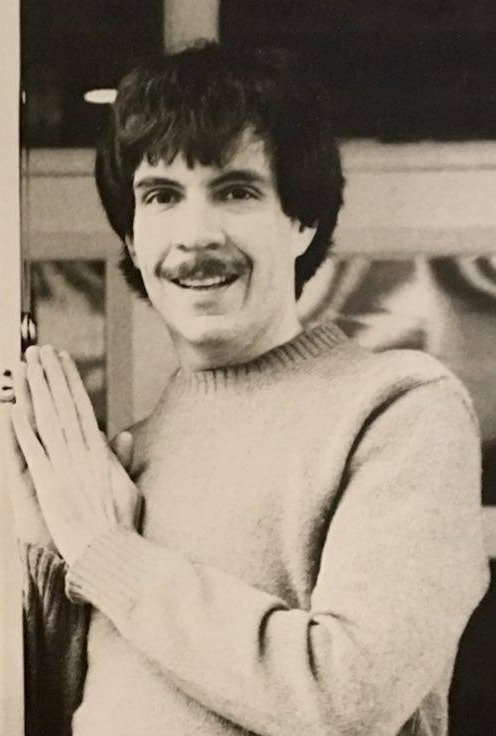 Sal Piro